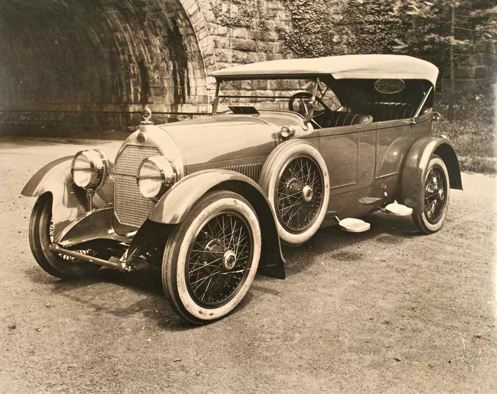 A factory illustration of the Richelieu T-85 Touring. This was a short-lived luxury sports car powered by a 340,5 c.i. Rochester-Duesenberg G-1 four cylinder engine with 81 bhp. Coachwork is probably by Fleetwood. This car has a nickeled grille shell, 6 Houk wire wheels, and step plates. Prices started at $ 3950.